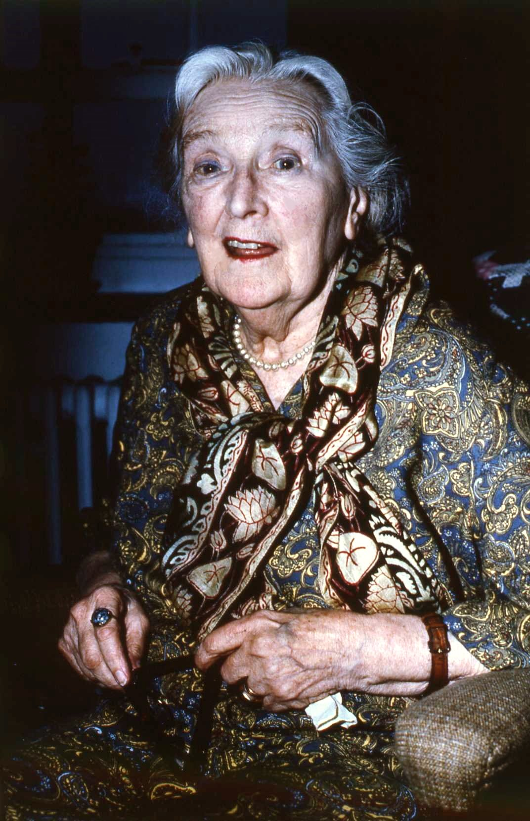 portrait of Dame Sybil Thorndike